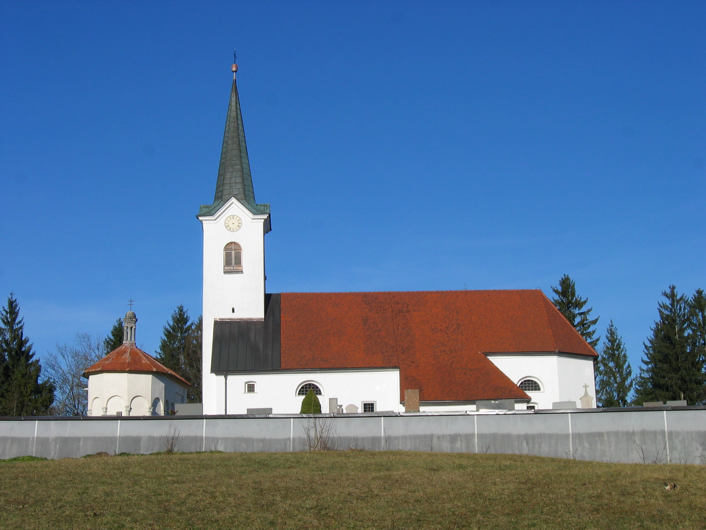 Exaltation of the Holy Cross churches in Jurjevica, Slovenia